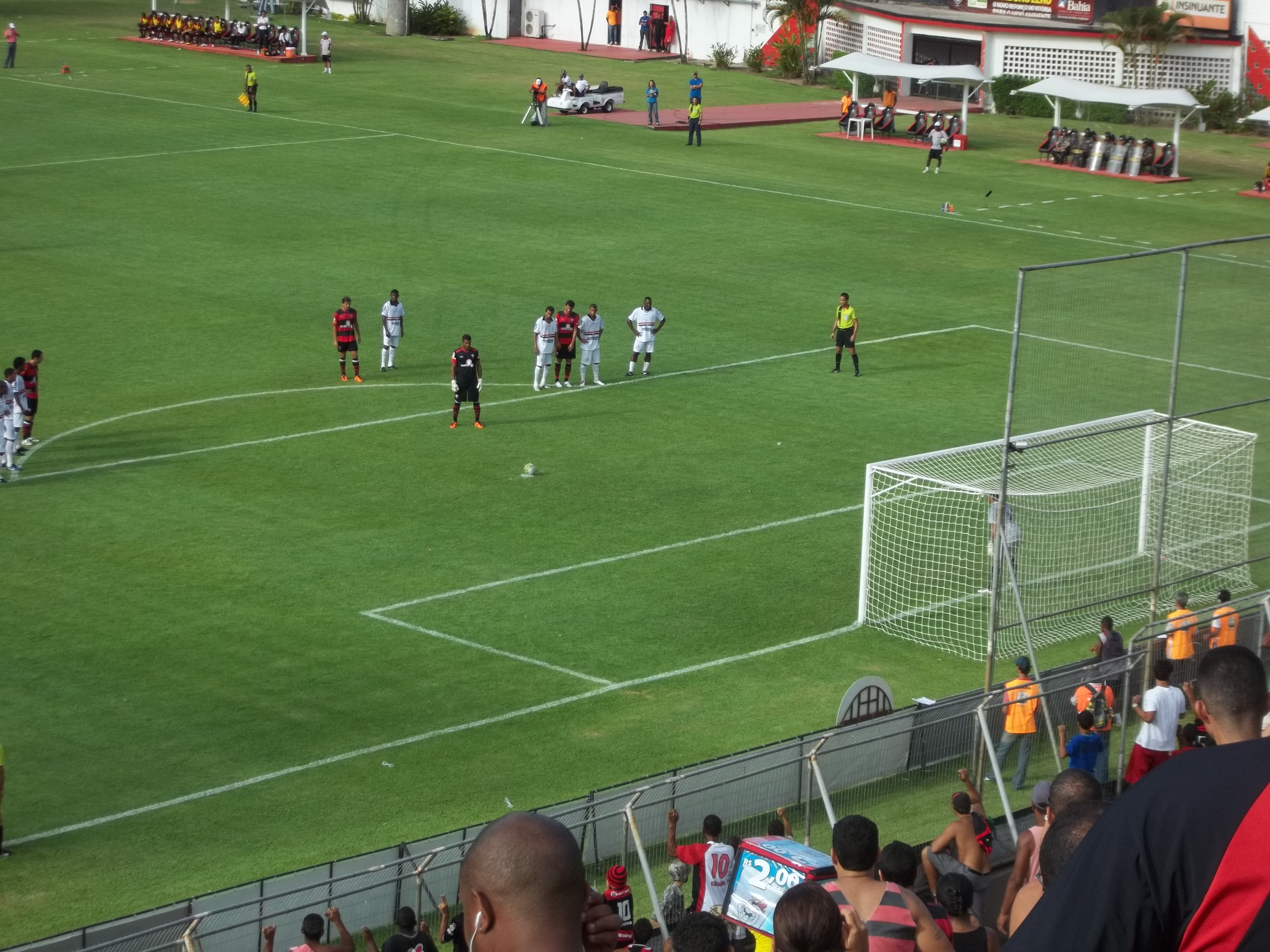 Viáfara taking a penalty, 13/02/2011